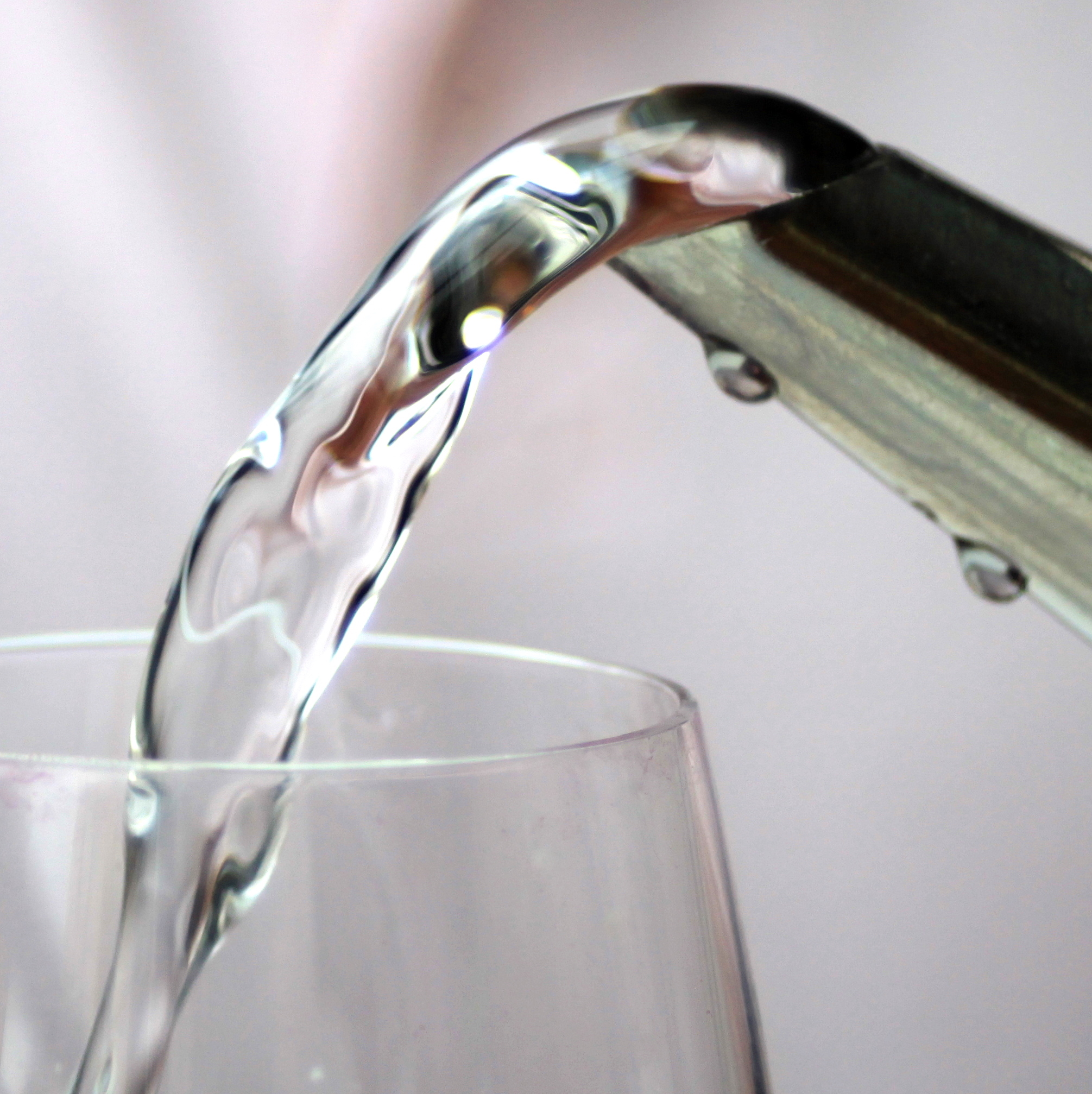 “Some people think of the glass as half full. Some people think of the glass as half empty. I think of the glass as too big.”